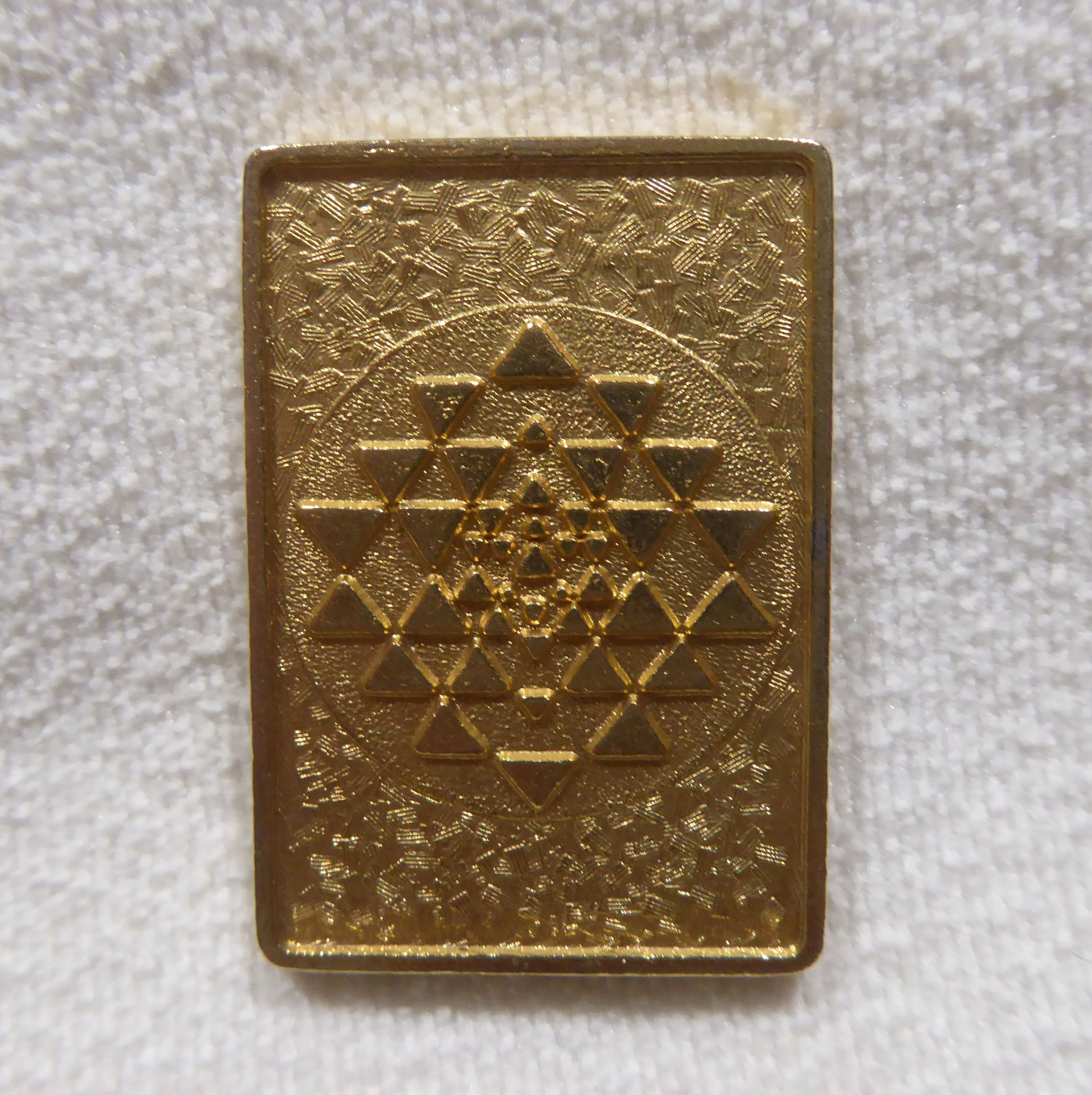 Cubit Prop Battlestar Galactica (1978 TV series). Reverse side pyramid grid design